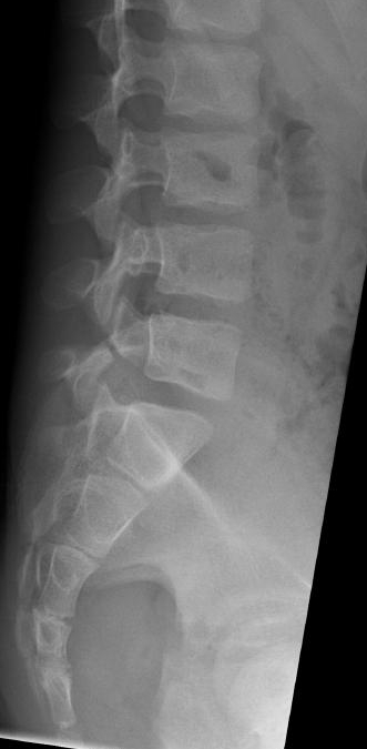 X-Ray of lumbar spine, lateral projection, showing Spondylolysis L5/S1 in a 11 yrs old boy